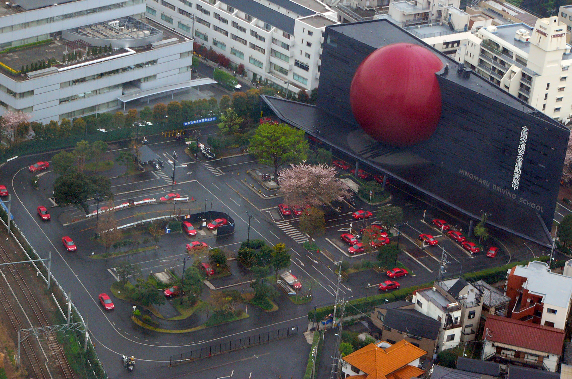 Hinomaru Driving School near Ebisu station, Tokyo, Japan. Most of the Japanese drivers had attended driving school to obtain a driver's license. Major driving schools provide classes on Learner's permit, driving practive on public roads and basic knowlege on automobiles. Graduates of accredited driving schools will be exempt from driving skill test to have a lincese issued.